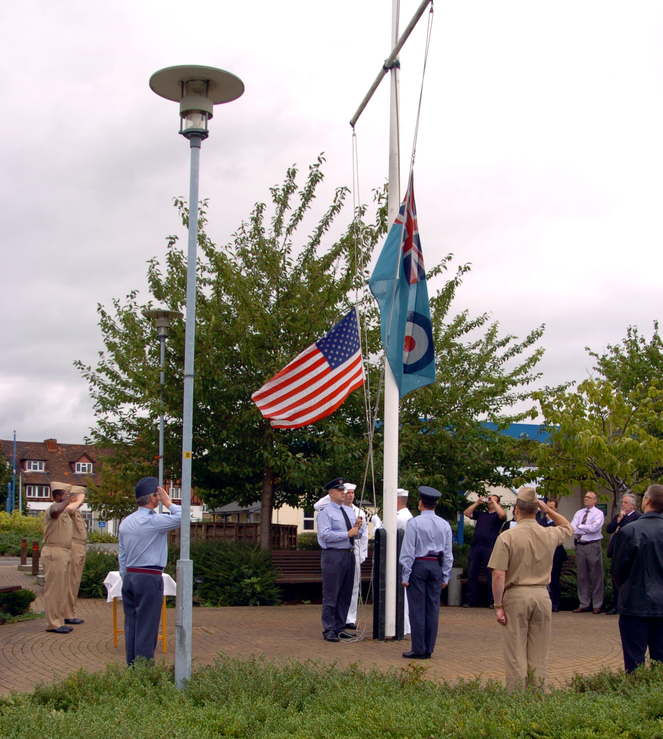 "The American Flag is lowered for the final time at RAF West Ruislip, United Kingdom. The base has been utilized by the U.S. Armed Forces since 1939 becoming a support base under Commander, U.S. Naval Activities, and United Kingdom in the late 1970’s. Located in West London, RAF West Ruislip provided support for over 3,000 military and civilian personnel and their dependents during the 80’s and 90’s. Under the transformation program for the European Theatre, RAF West Ruislip and Naval Facility Eastcote were returned to British Royal Air Force control on 28 September 2006. U.S. Navy photo by Mr. Stephen Dechant (RELEASED)"